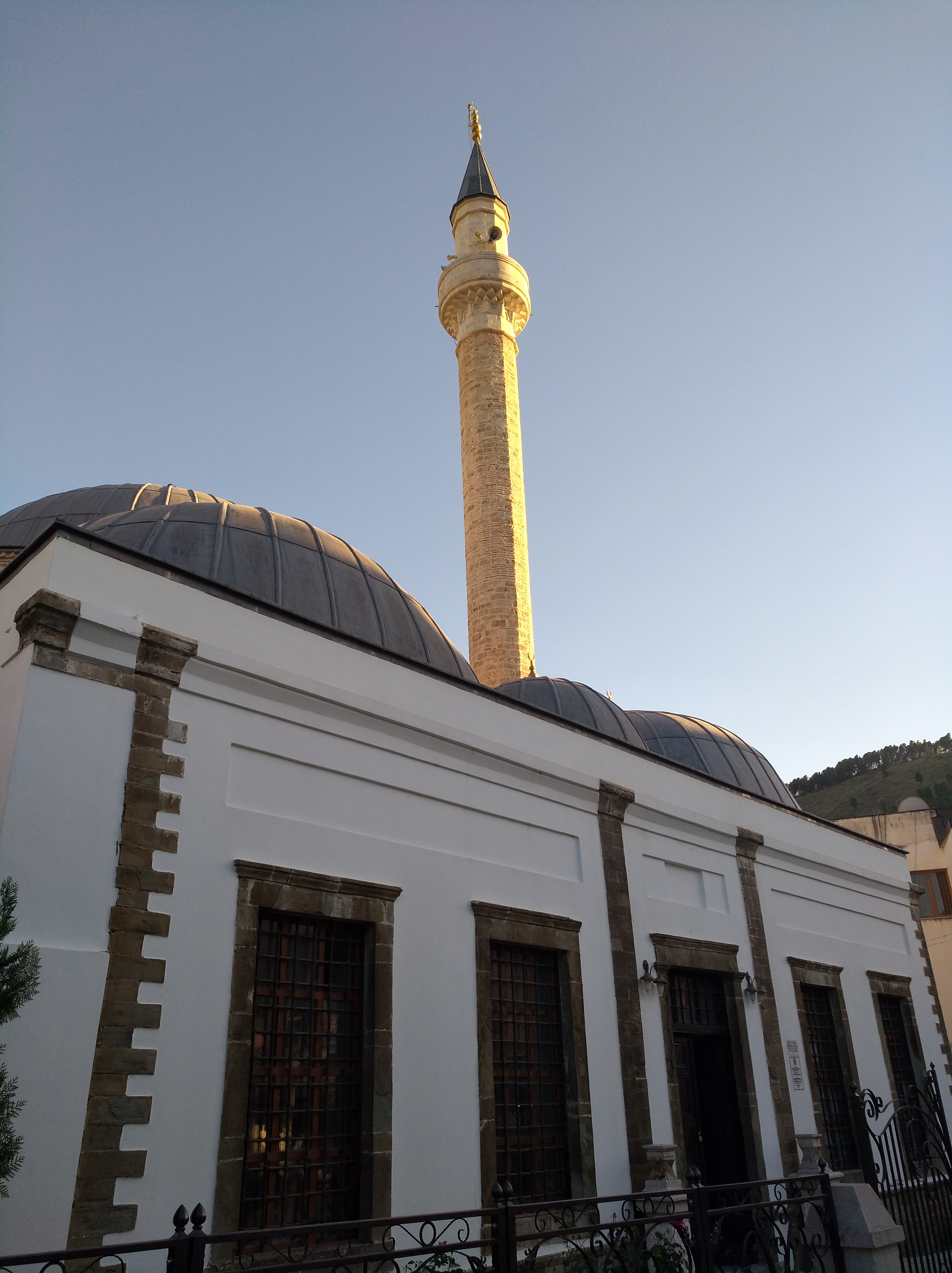 Lead Mosque in Berat, Albania.